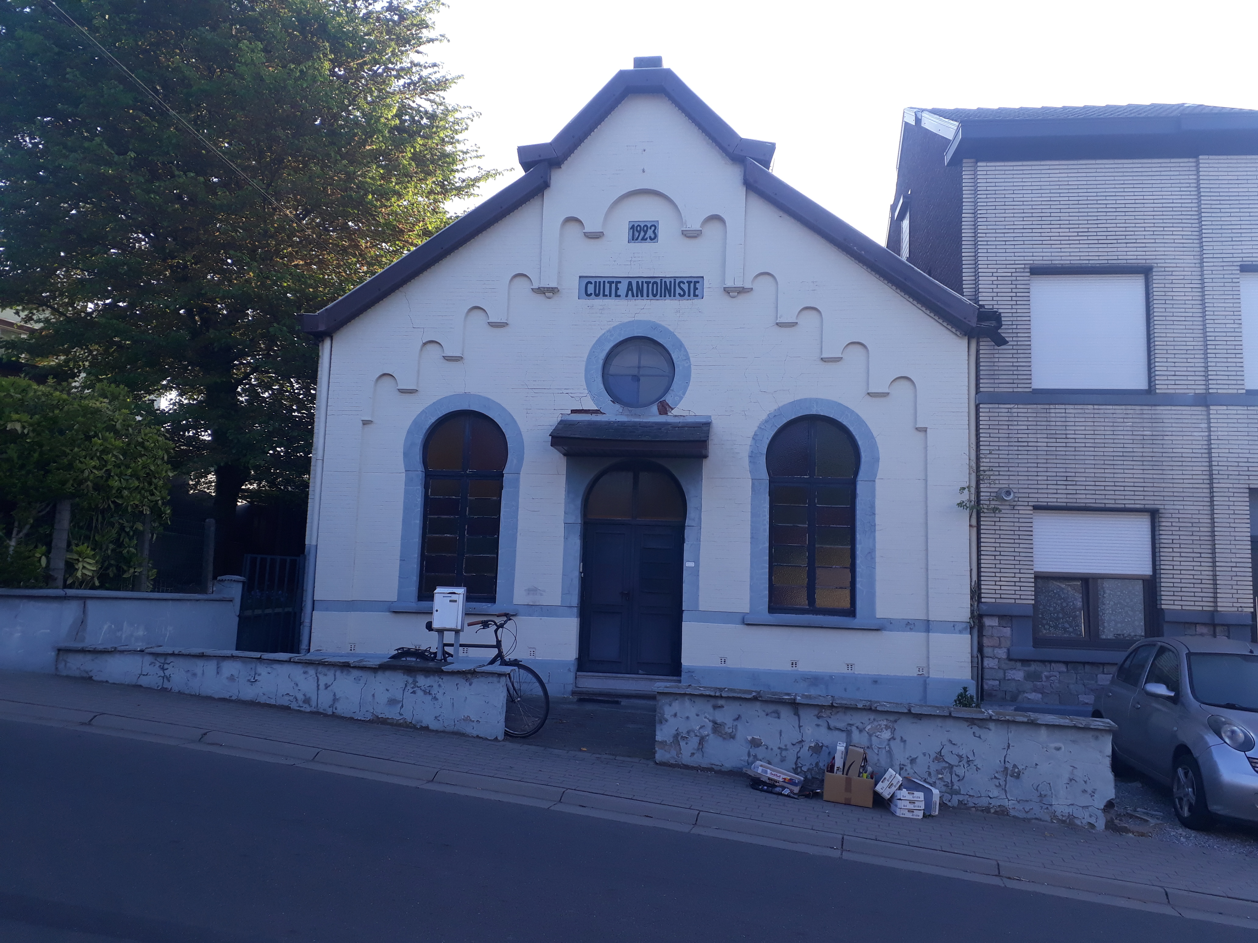 Temple Antoiniste de Vottem